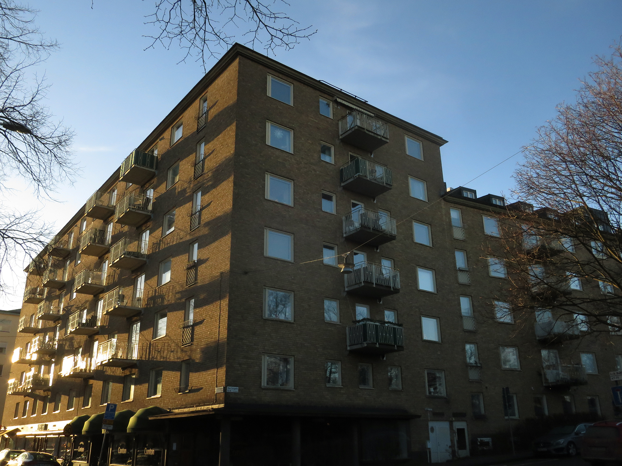 Stockholm architecture. 1940-41. Architect Olle Zetterberg, contractor Nils Nessen